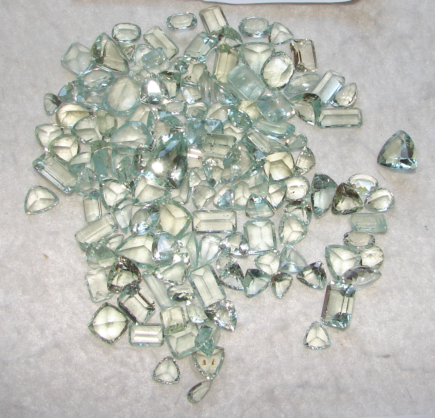 Amblygonite cut from Minas Gerais, Brazil. Gem cutting by Afonso Marques.